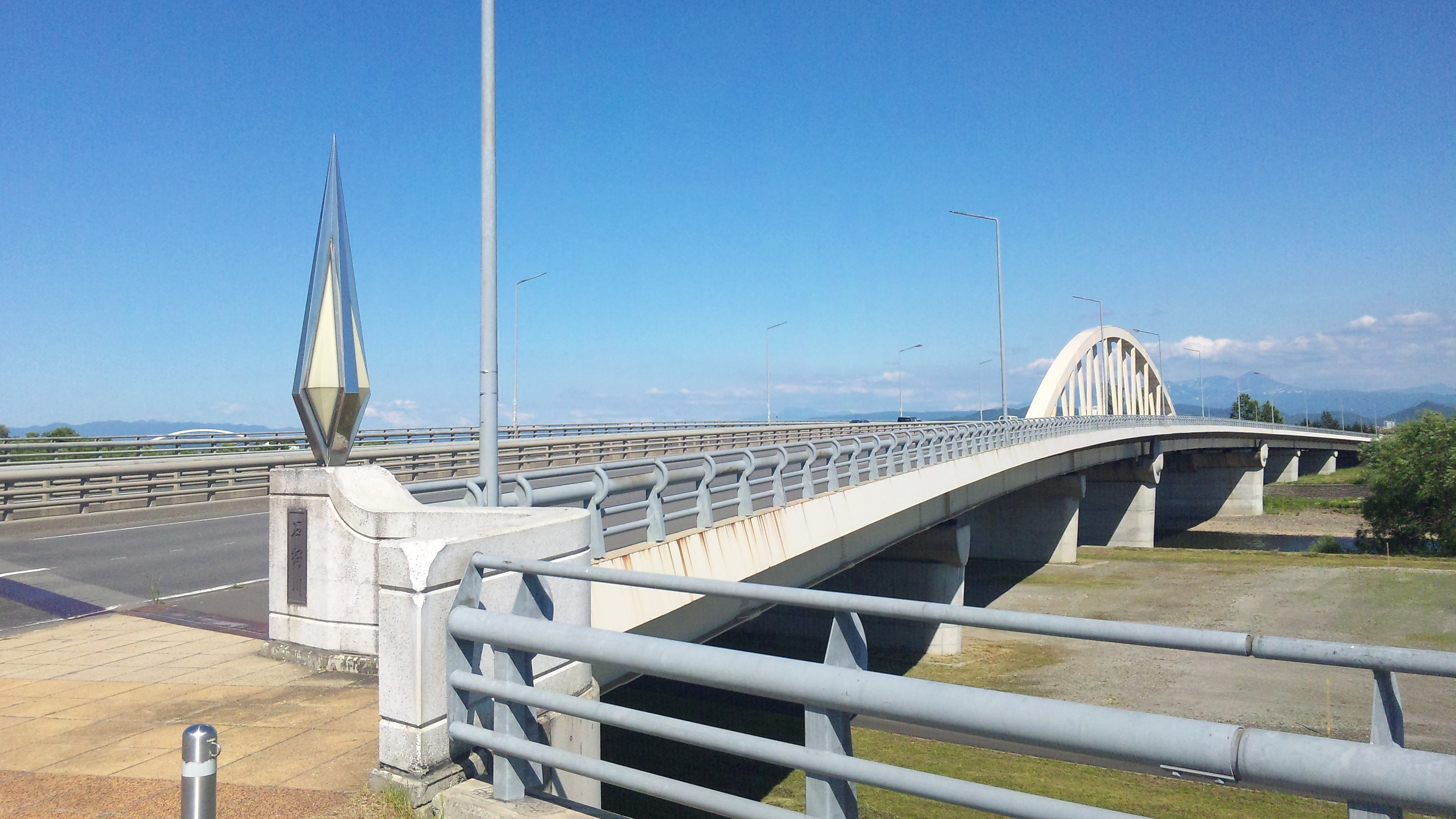 Kita Asahikawaohashi Bridge, in Hokkaido, Japan